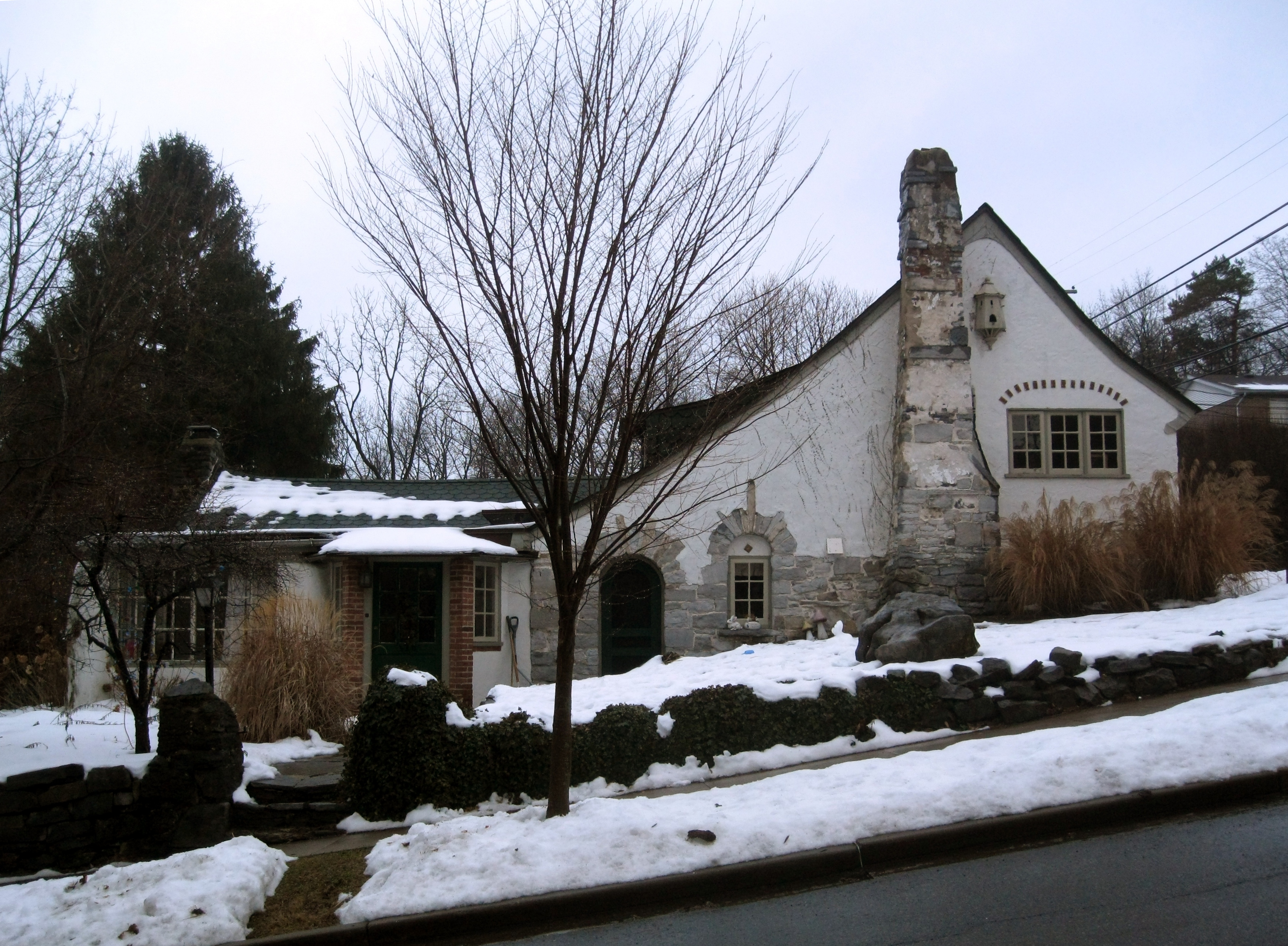 Camelot a historic house in the borough of State College, Centre County, Pennsylvania, USA. Built in 1922, it was added to the National Register of Historic Places in 1979.